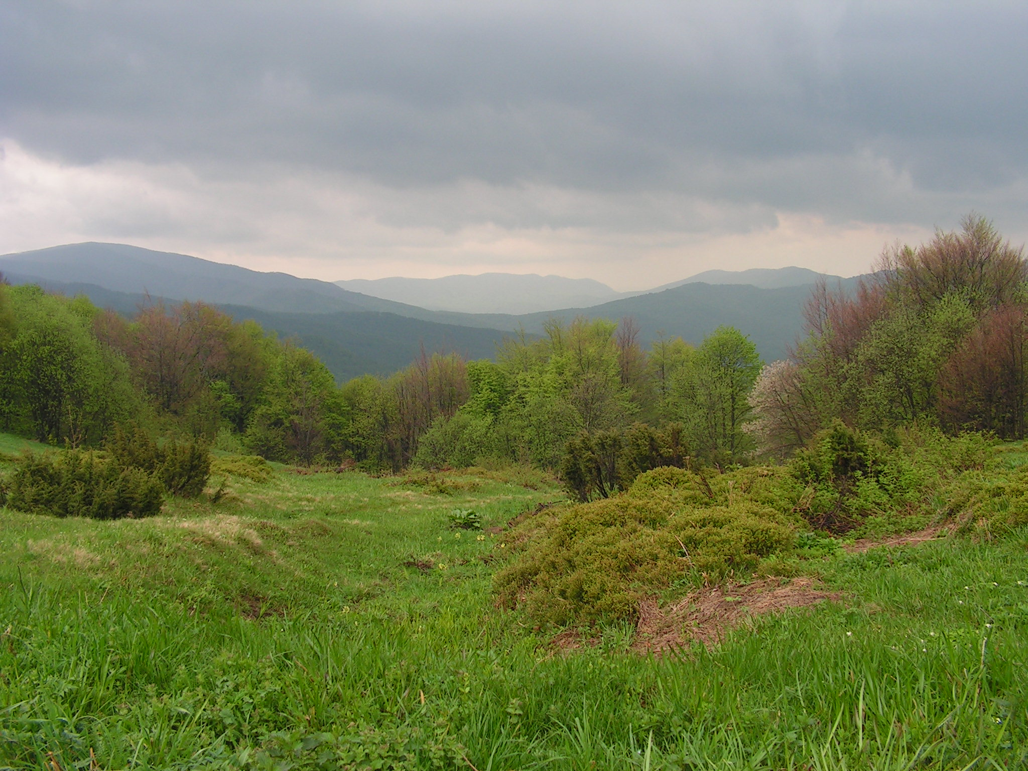 Ruské sedlo. Panorama of Poloniny